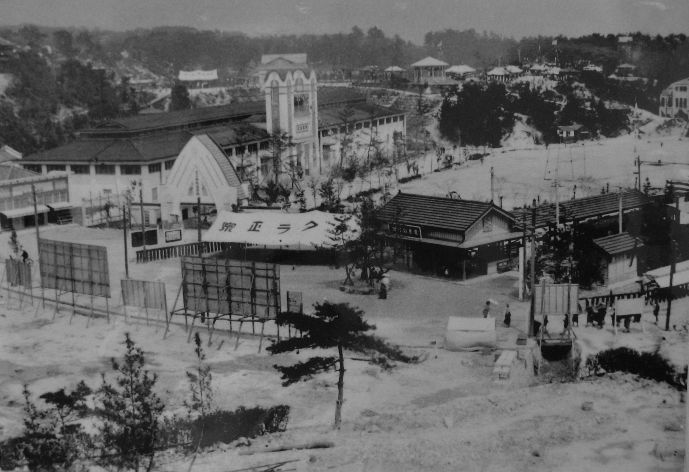 Koyoen Station and Koyo Theatre (on the left) with Koyo Park Music Pavilion above the station